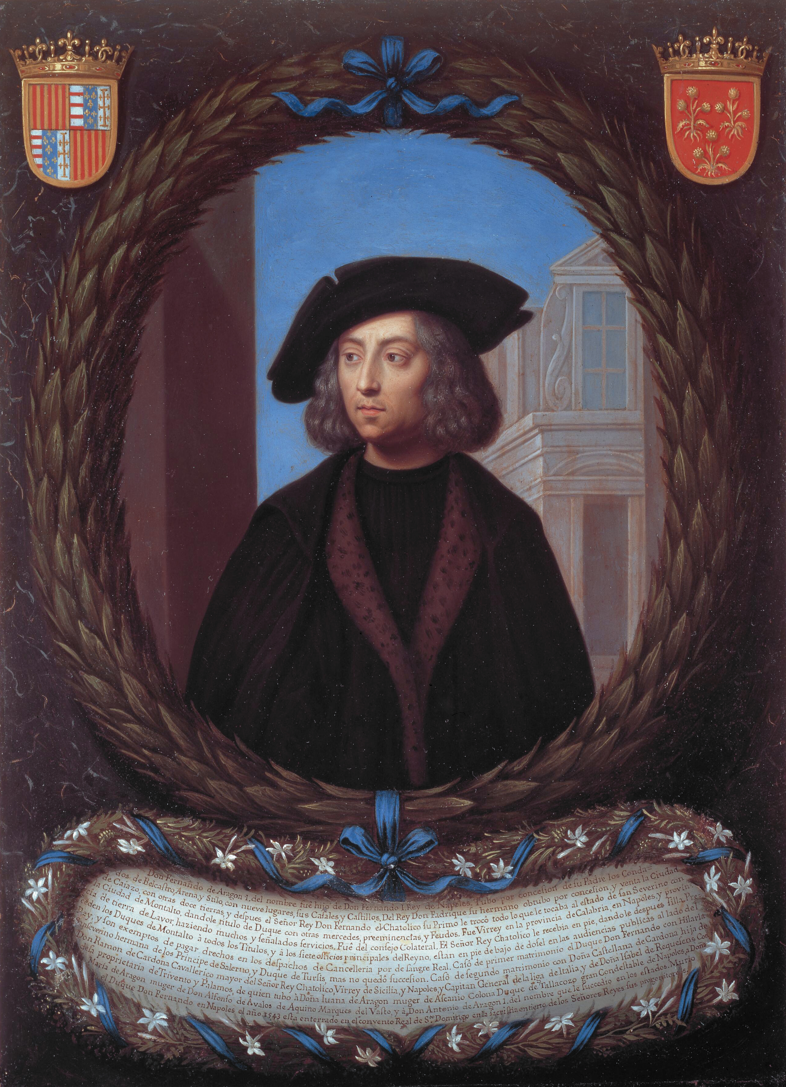 Ferdinando d'Aragona, first Duke of Montalto (?-1543) oil on copper 36 x 26 cm 1650 - 1660